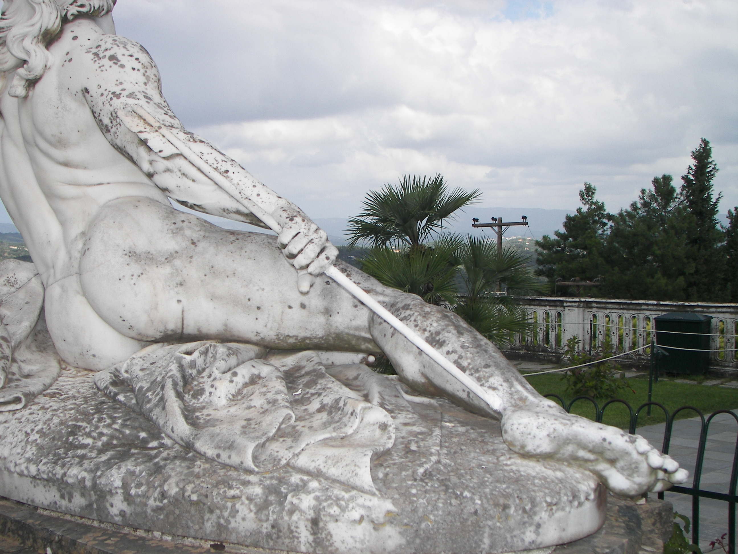 Dying Achilles at Achilleion, Corfu. Sculptor: Ernst Herter, 1884.